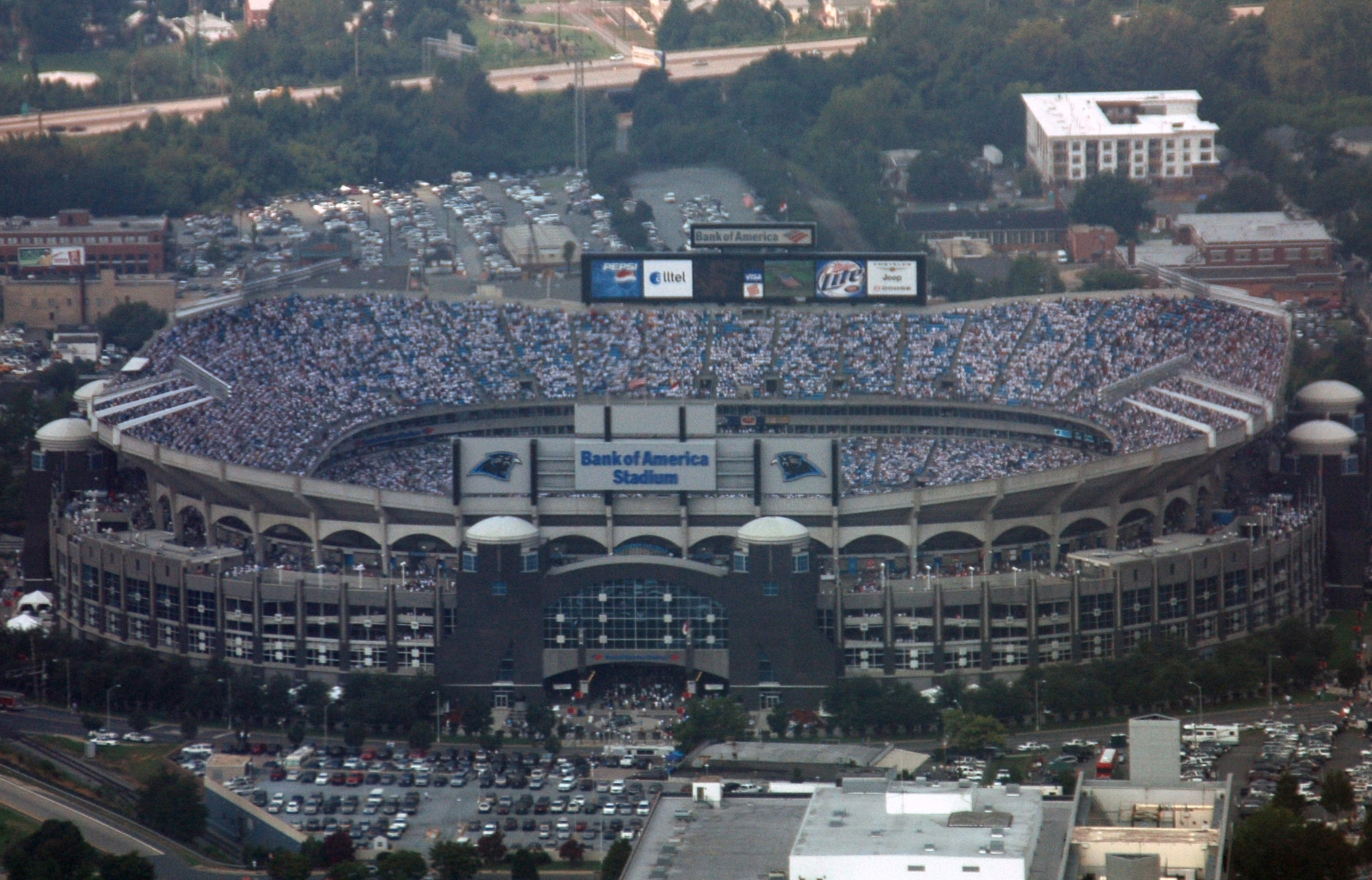 The Bank of America Stadium in Charlotte, N.C. as seen from the flight deck of a C-17 Globemaster III. Aircrew members from each flying squadron in the the 315th Airlift Wing, Charleston AFB, S.C., flew a fly-by in a for the Carolina Panthers’ season opener on Sept. 10, 2006. (Photo by Capt. Wayne Capps, USAFR)